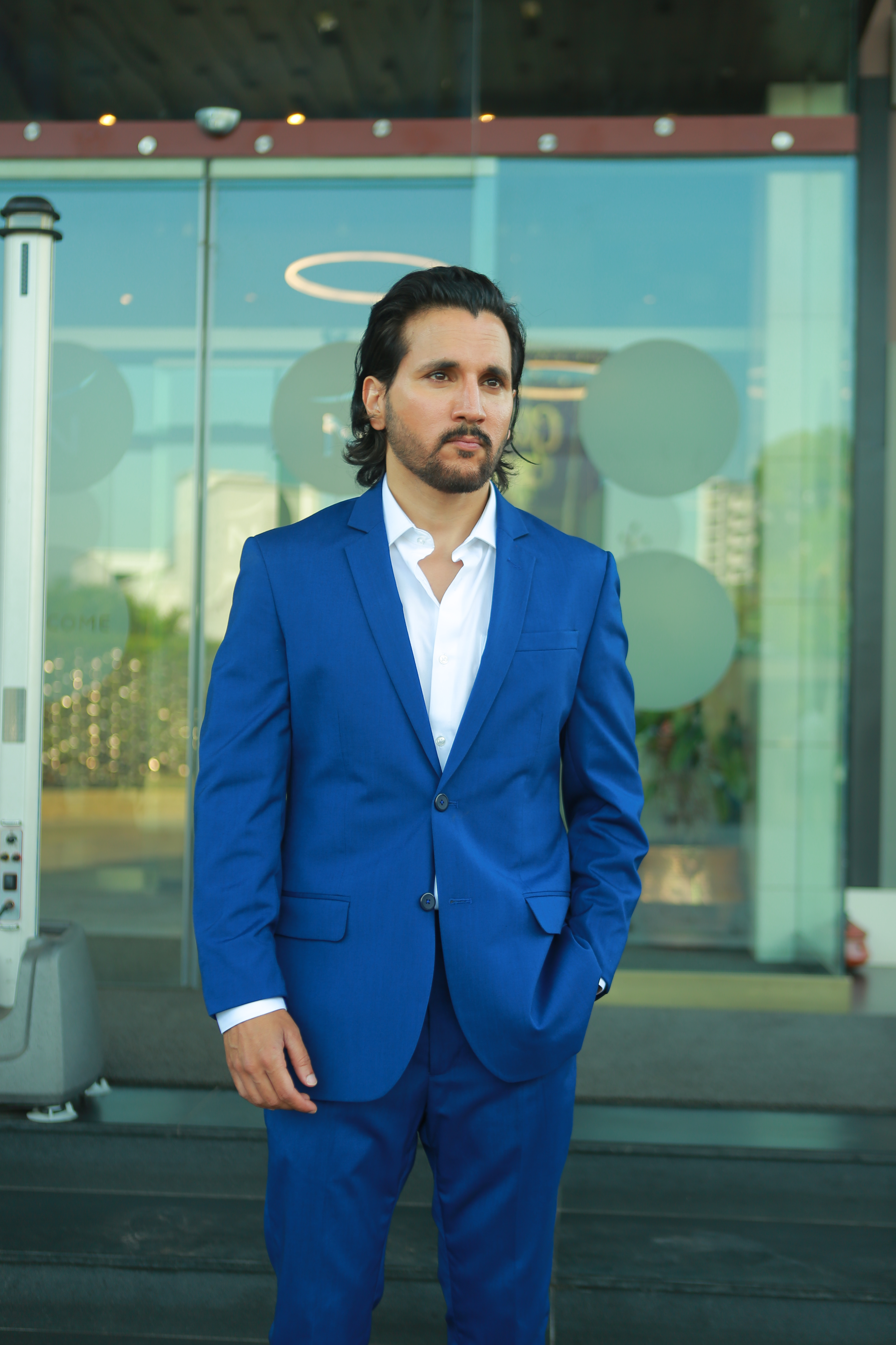 Paul Sidhu (Amar Sidhu), is an American actor, producer and cosmetic surgeon.